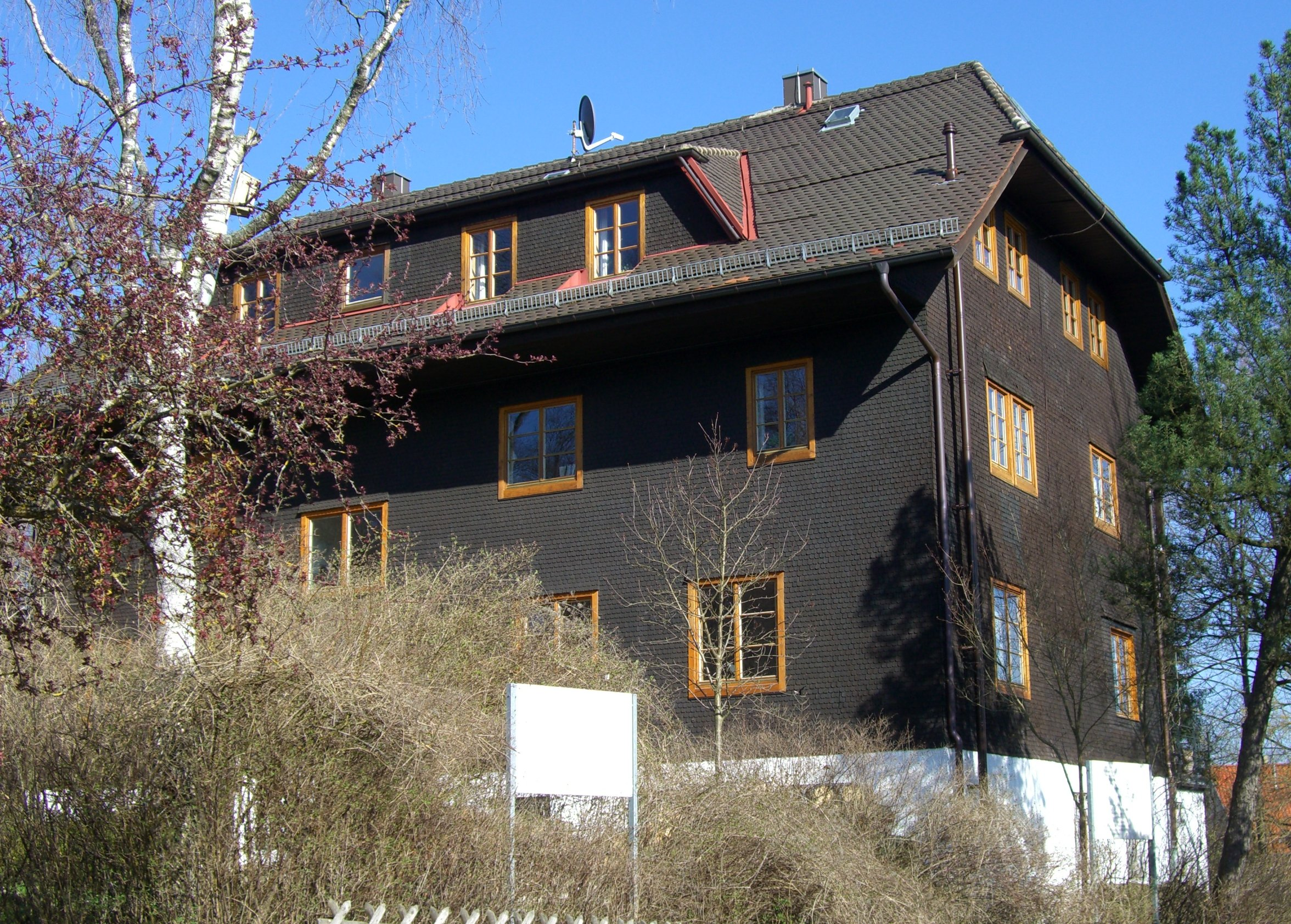 former boarding school Landschulheim Herrlingen, now an apartment building. Address: Erwin-Rommel-Steige 50, Herrlingen.